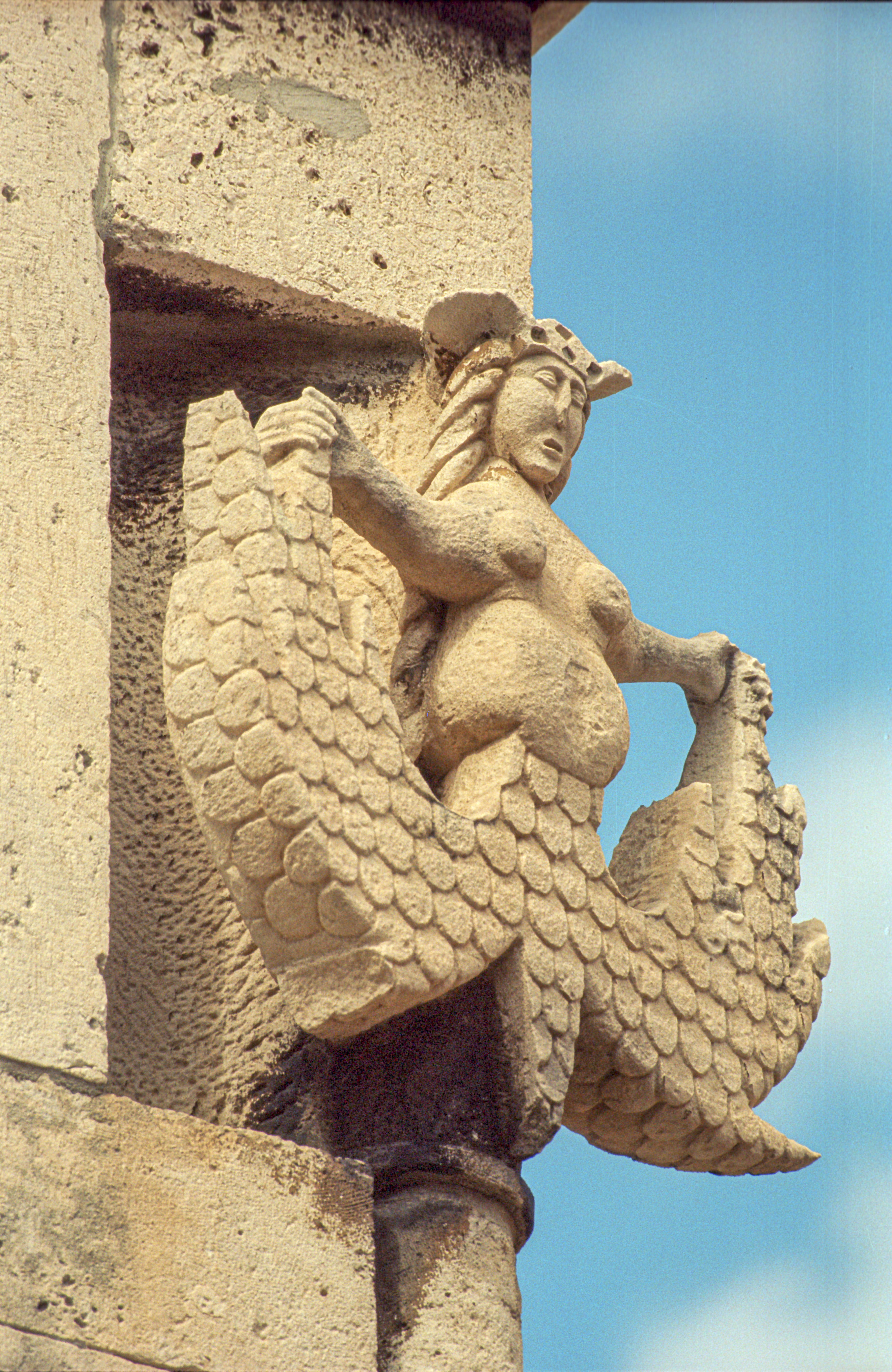 On the City Hall, Pula, Croatia, Pula, Croatia